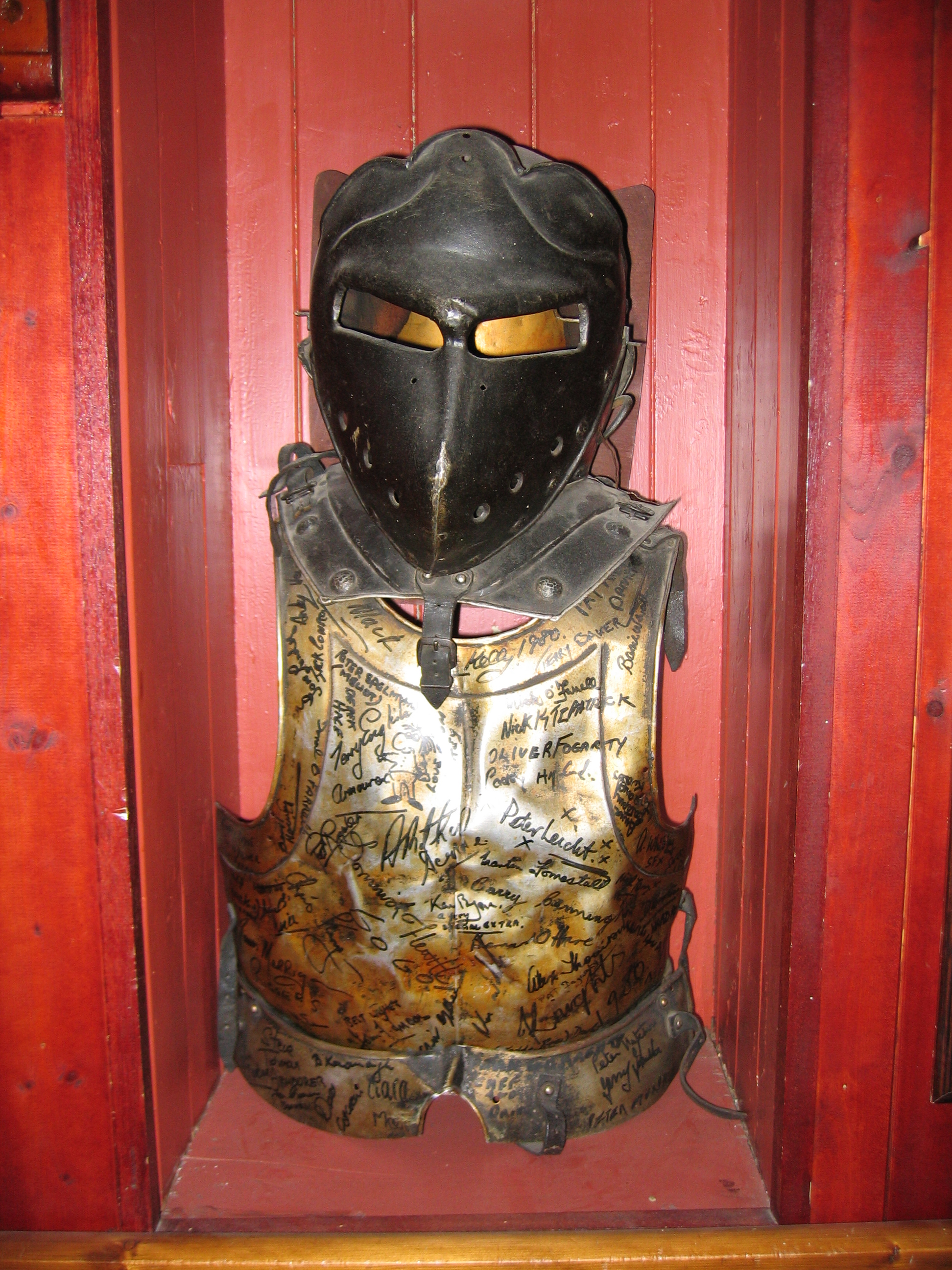 Autographed armor from the movie Excalibur in a pub in Cahir, Ireland